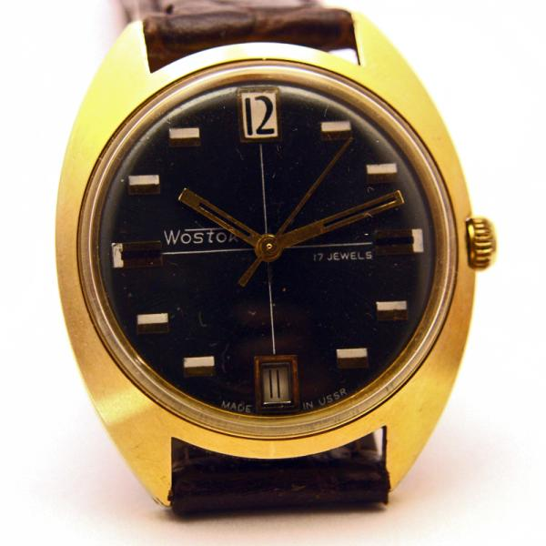 Watch Vostok